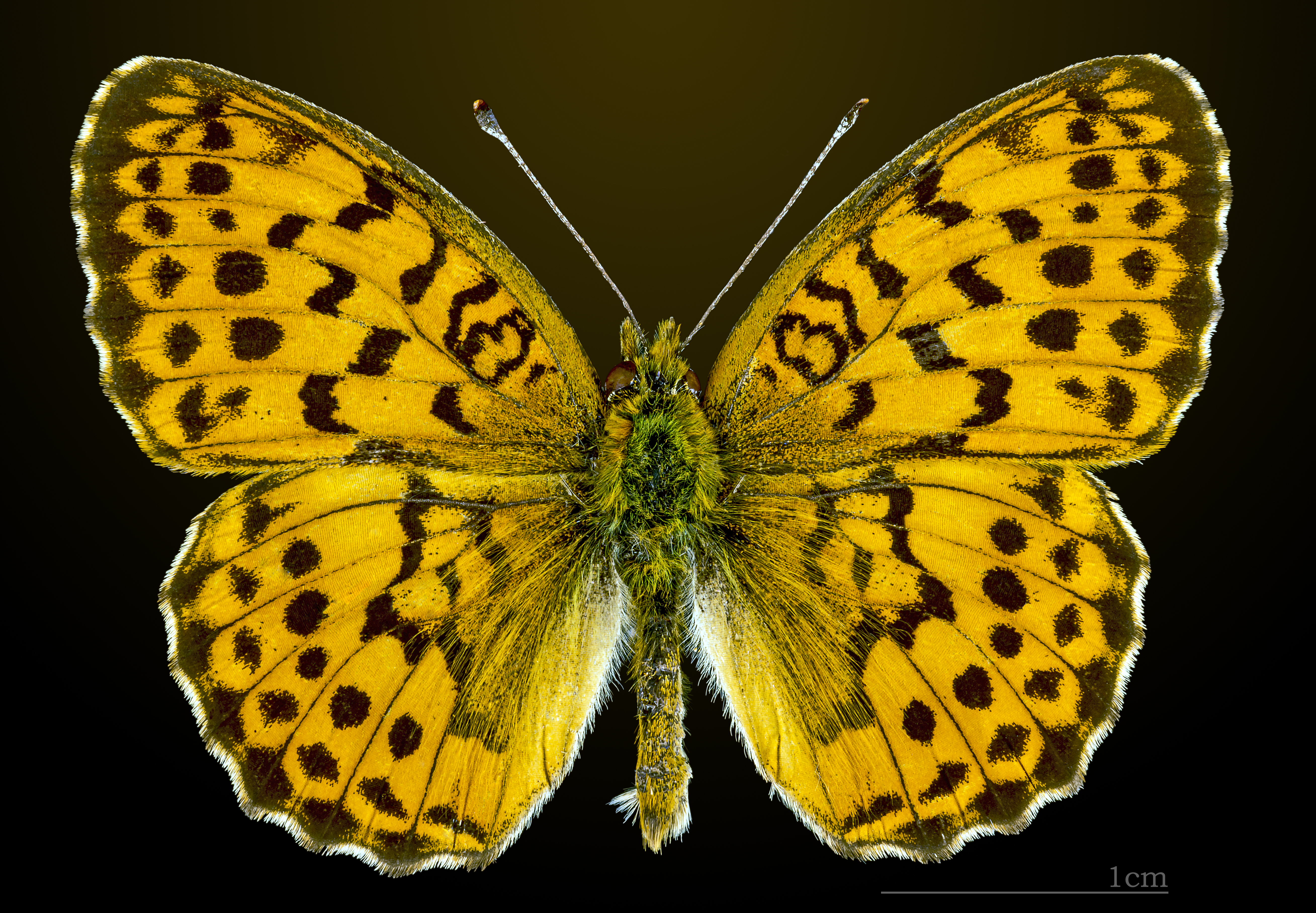 marbled fritillary - Dorsal side Locality: Paleyrac, Buisson-de-Cadouin, Dordogne, France